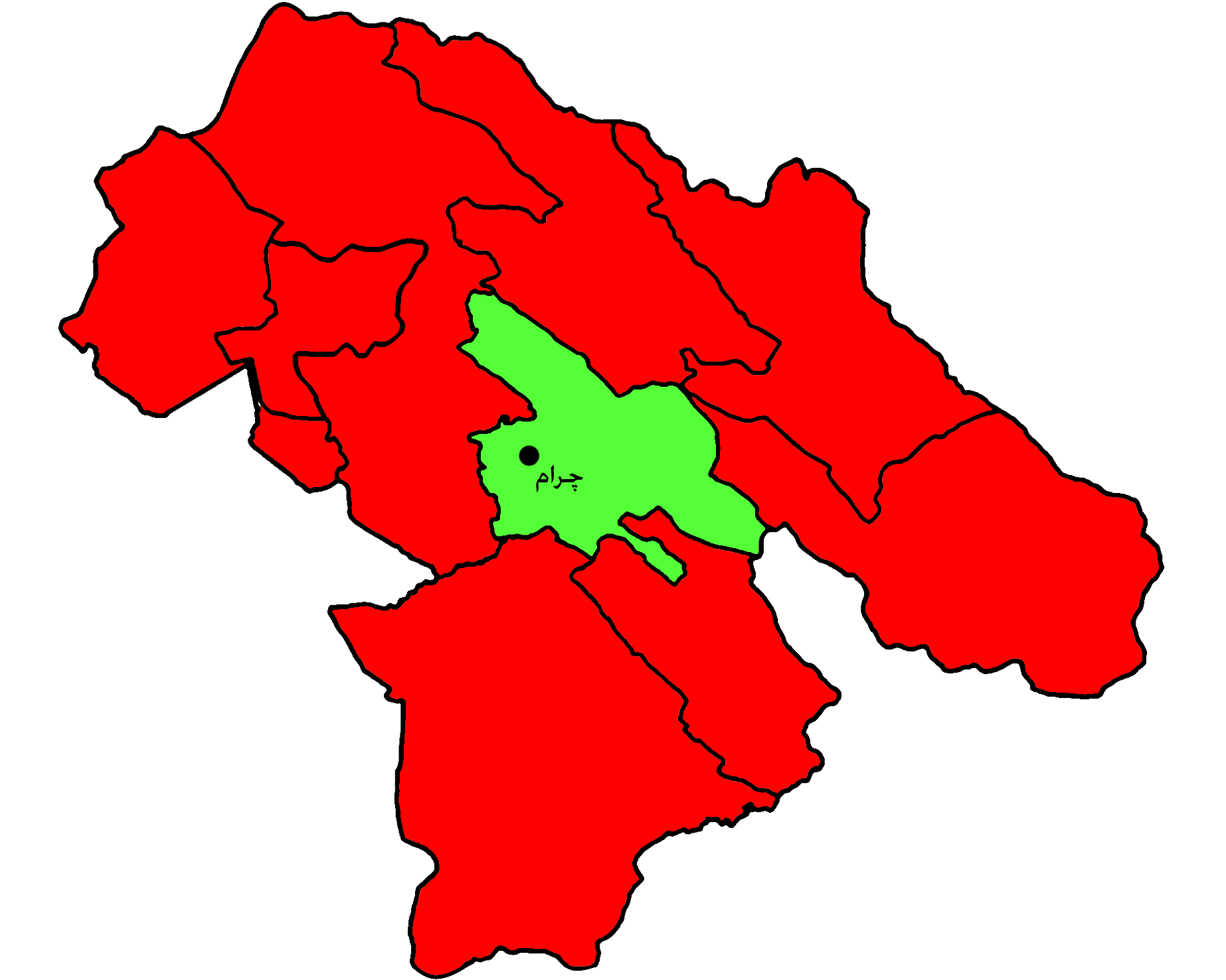 Map of Choram county, kohgiluyeh and boyer ahmad provice, iran.